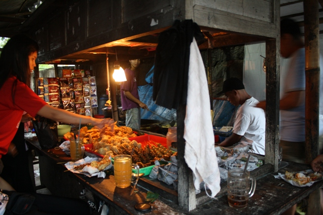 Sega Kucing (cat's rice) dish with condiments, sold at night in the City of Semarang, Indonesia.